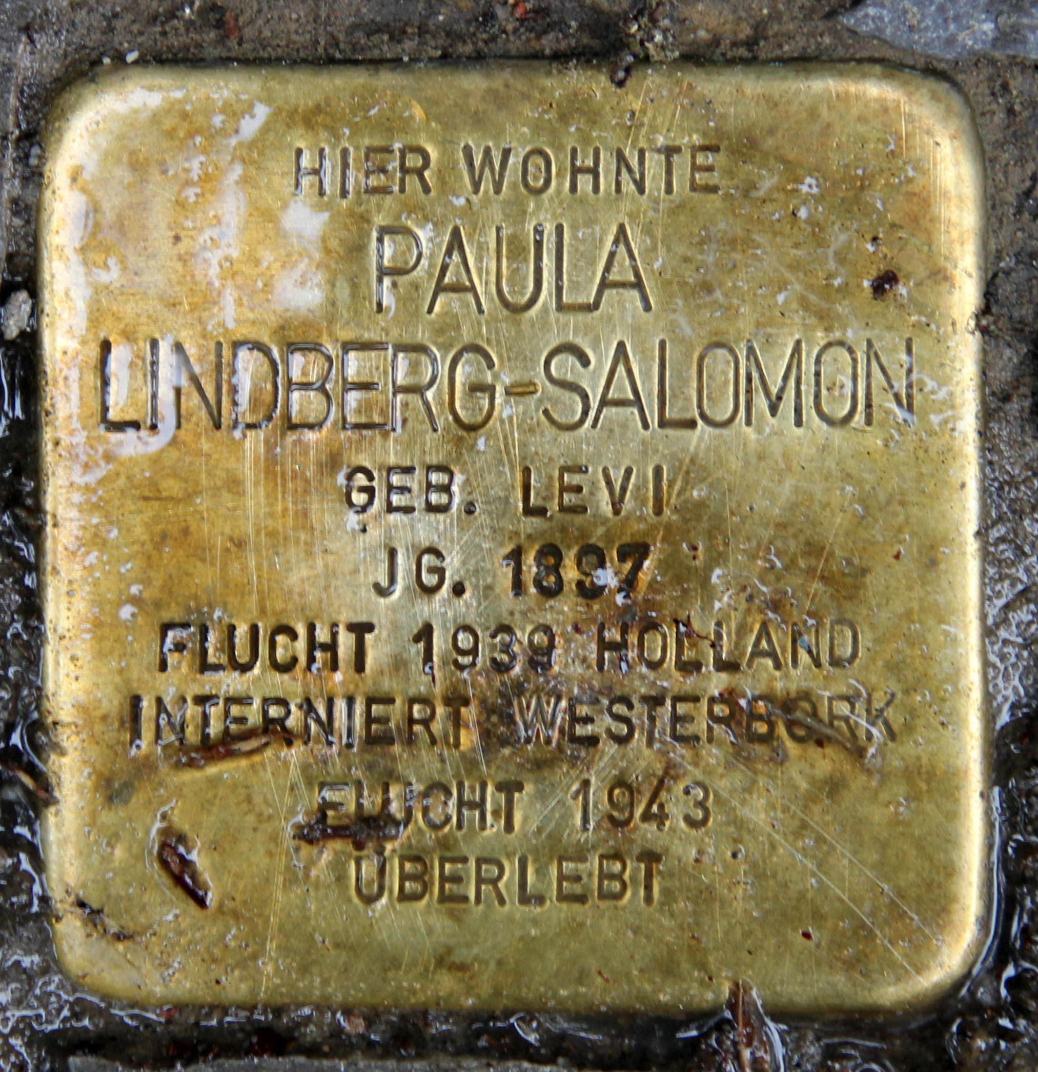 "Stolperstein" (stumbling block), Paula Lindberg-Salomon, Wielandstraße 15, Berlin-Charlottenburg, Germany